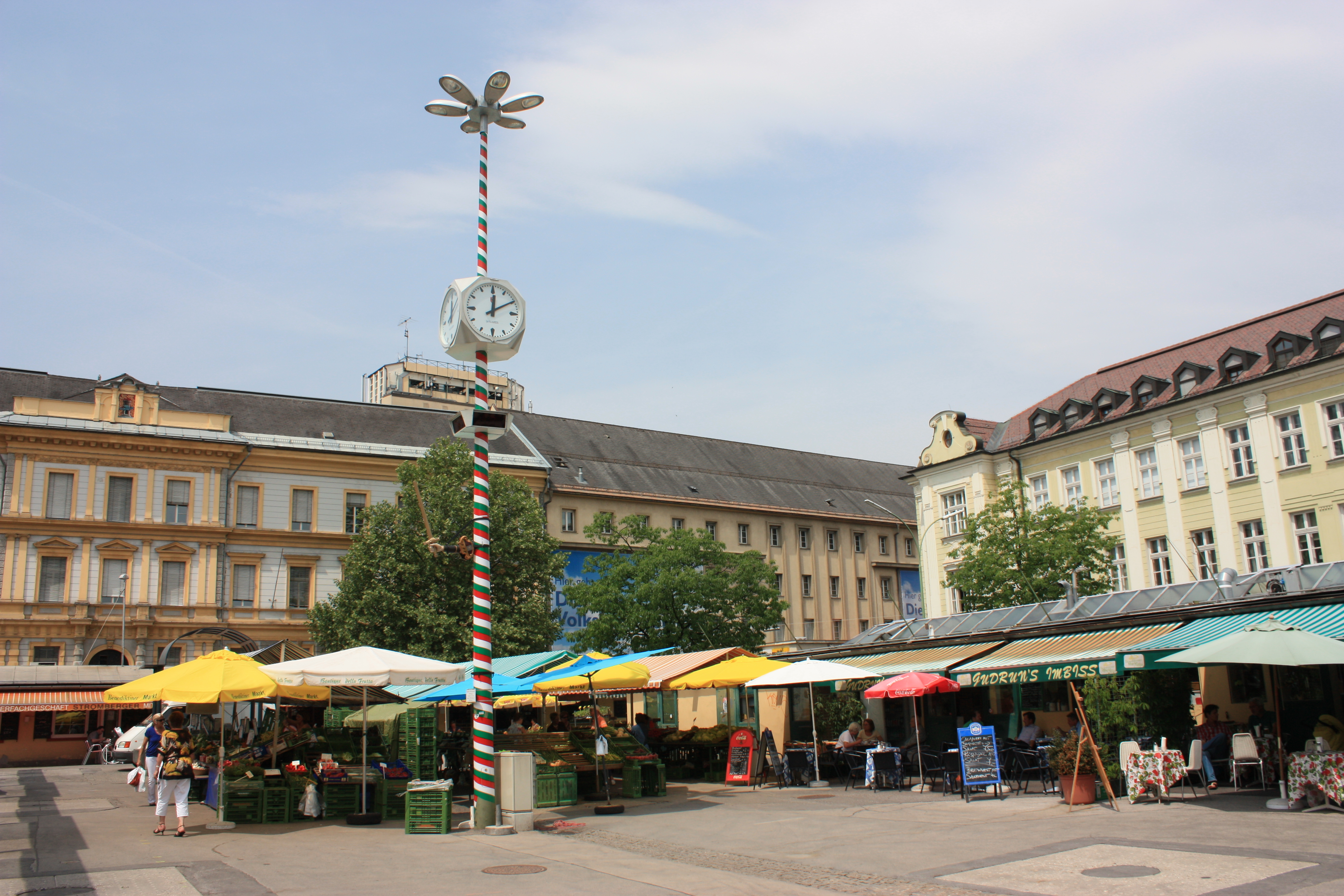 Benediktinermarkt (daily market) in Klagenfurt